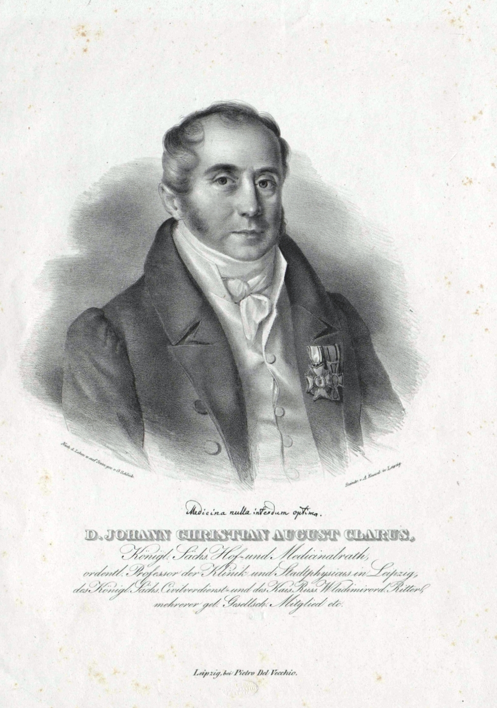 Johann Christian August Clarus (1774–1854)